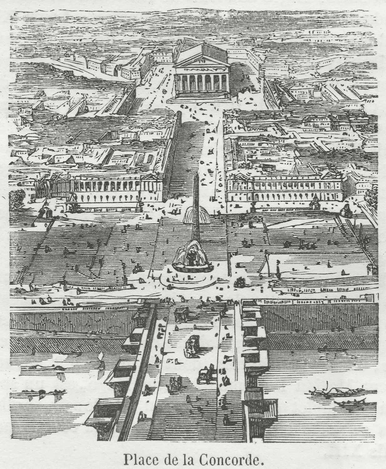 An aerial view of the Place de la Concorde.